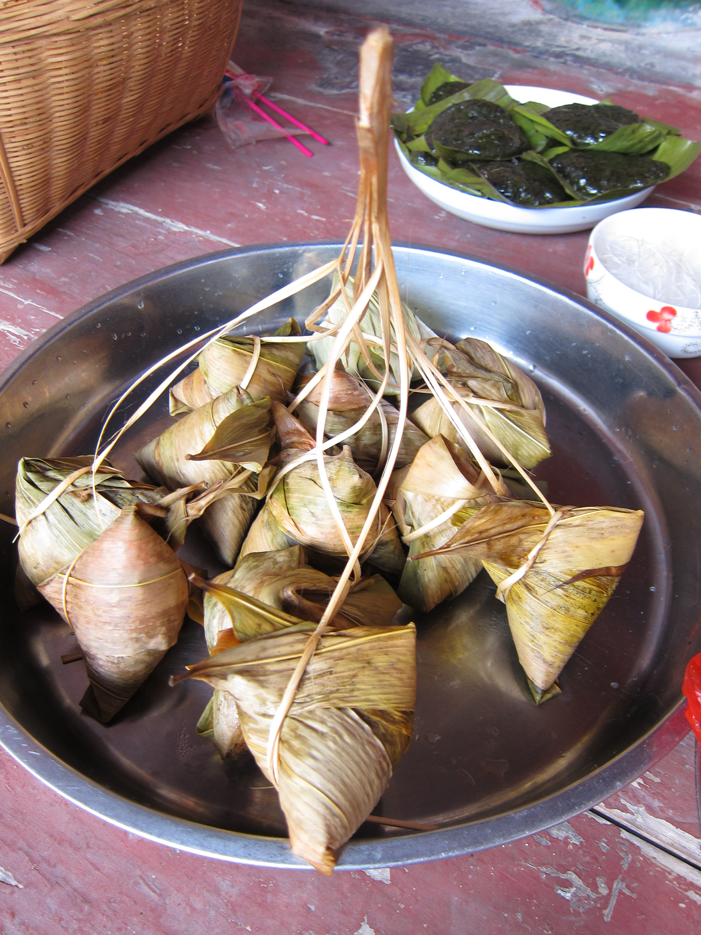 Jung is commonly available in Chinese shops wherever you go but what's unusual about these is that the lady who made them tied them using cane strips!! That's seriously hard core.